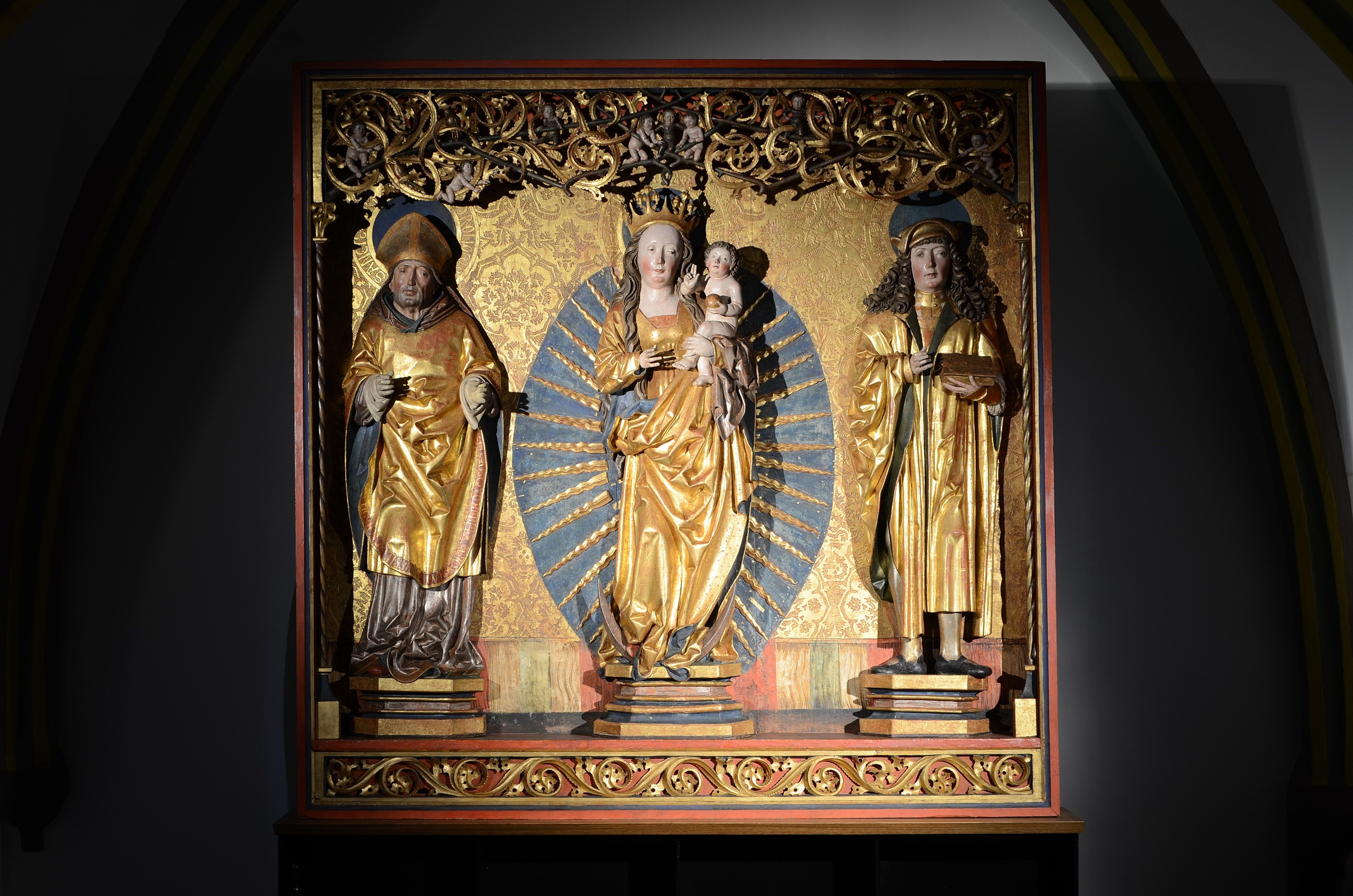 Einbeck (Lower Saxony, Germany) – Lutheran Saint Alexander Church – Altar of Our Lady in the Saint Thomas Chapel This is a photograph of an architectural monument.It is on the list of cultural monuments of Einbeck This photograph was taken with a Nikon D7000